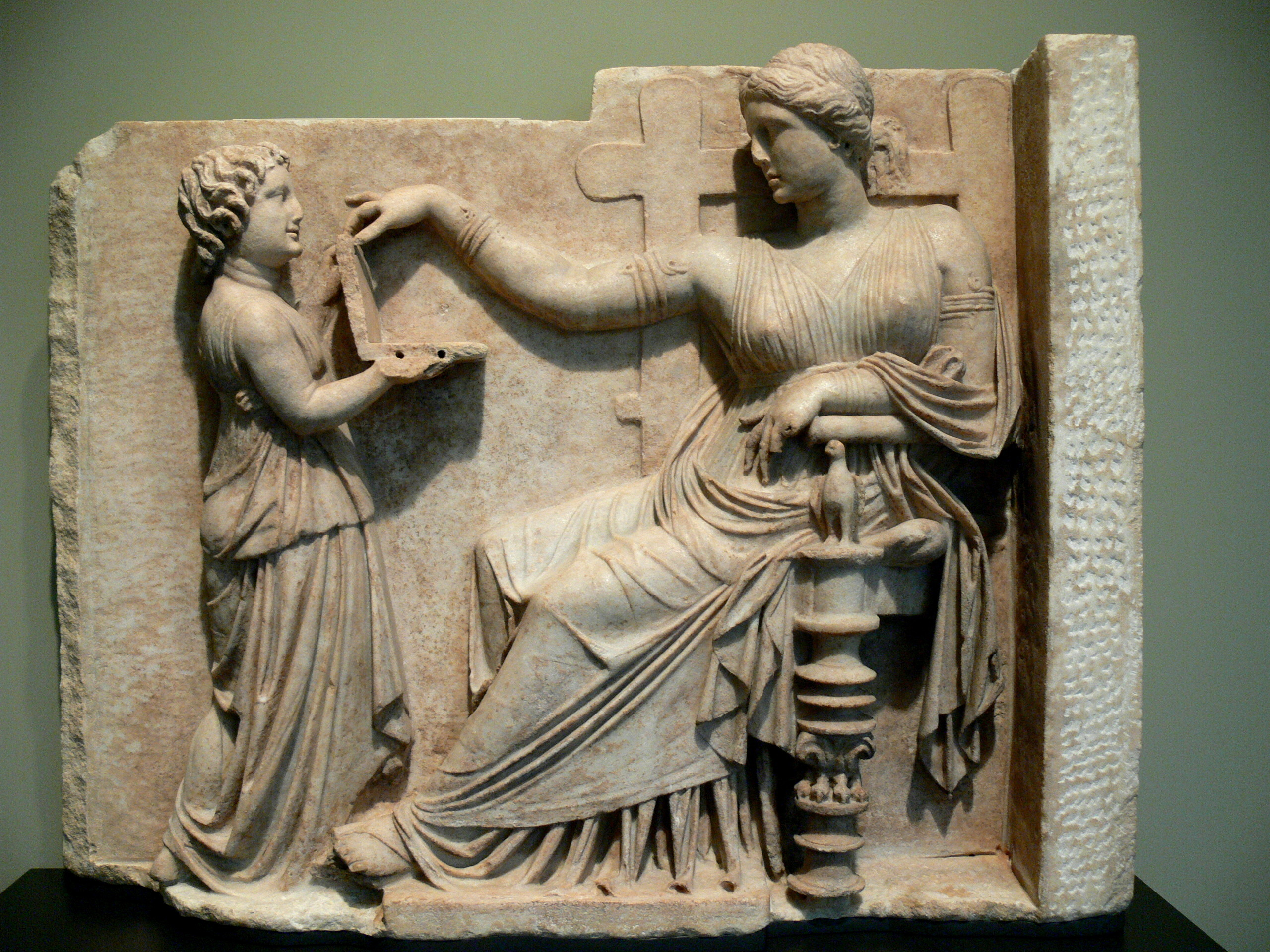 Gravestone of a woman with her slave child-attendant (Greek, c. 100 BC). Getty Villa, Usa